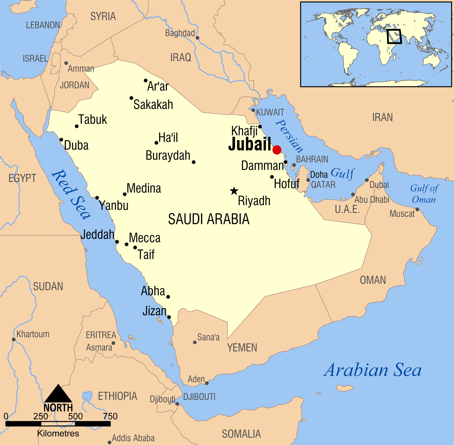 Locator map of Jubail, Saudi Arabia. Created by NormanEinstein, May 5, 2006.